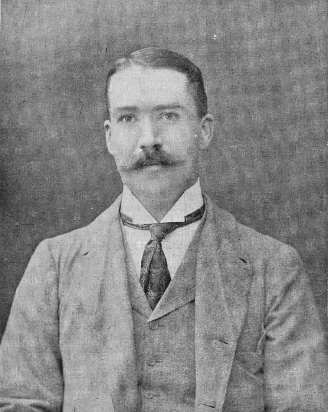 Black and white photo of Alexander Horsburgh Turnbull (14 September 1868 – 28 June 1918).